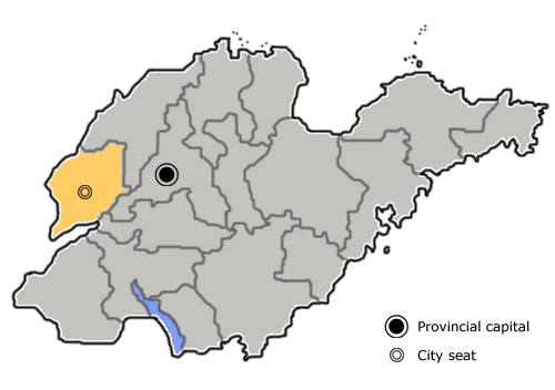 The prefecture-level city of Liaocheng is highlighted on this map of Shandong province, People's Republic of China.